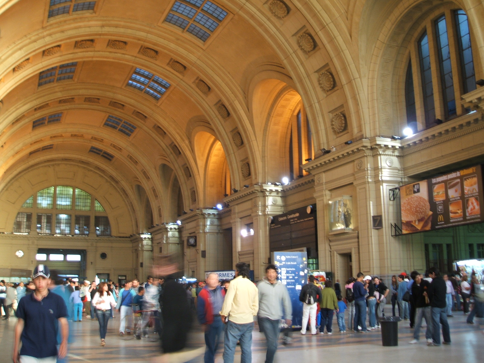 Plaza Constitución train station. The tracks are located to the right. The information desk and the departure's table can also be seen.